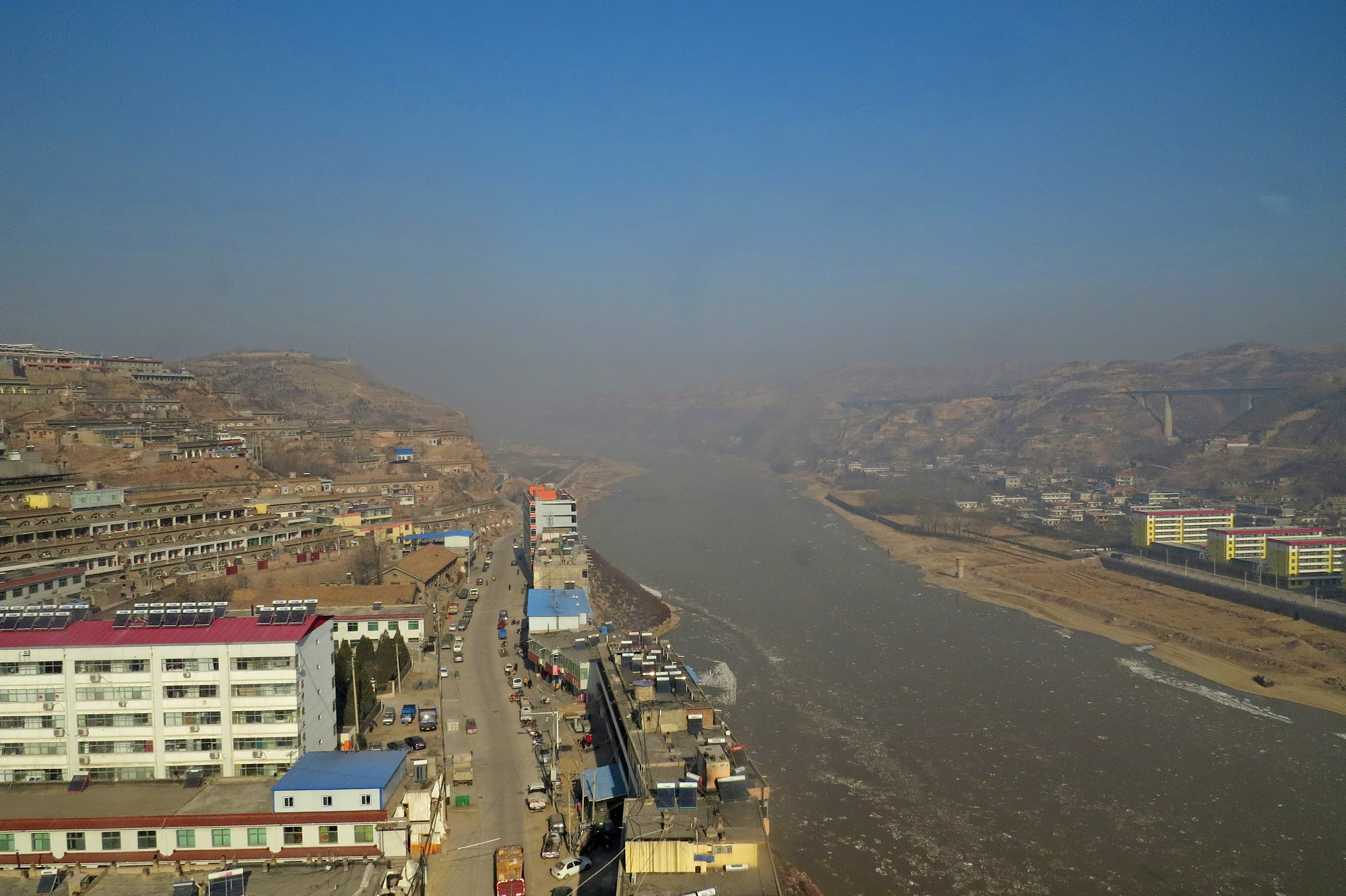 Taken from Z70 Urumqi-Beijing train. We're leaving (Shaanxi) together... heading for Shanxi and still we stand tall.